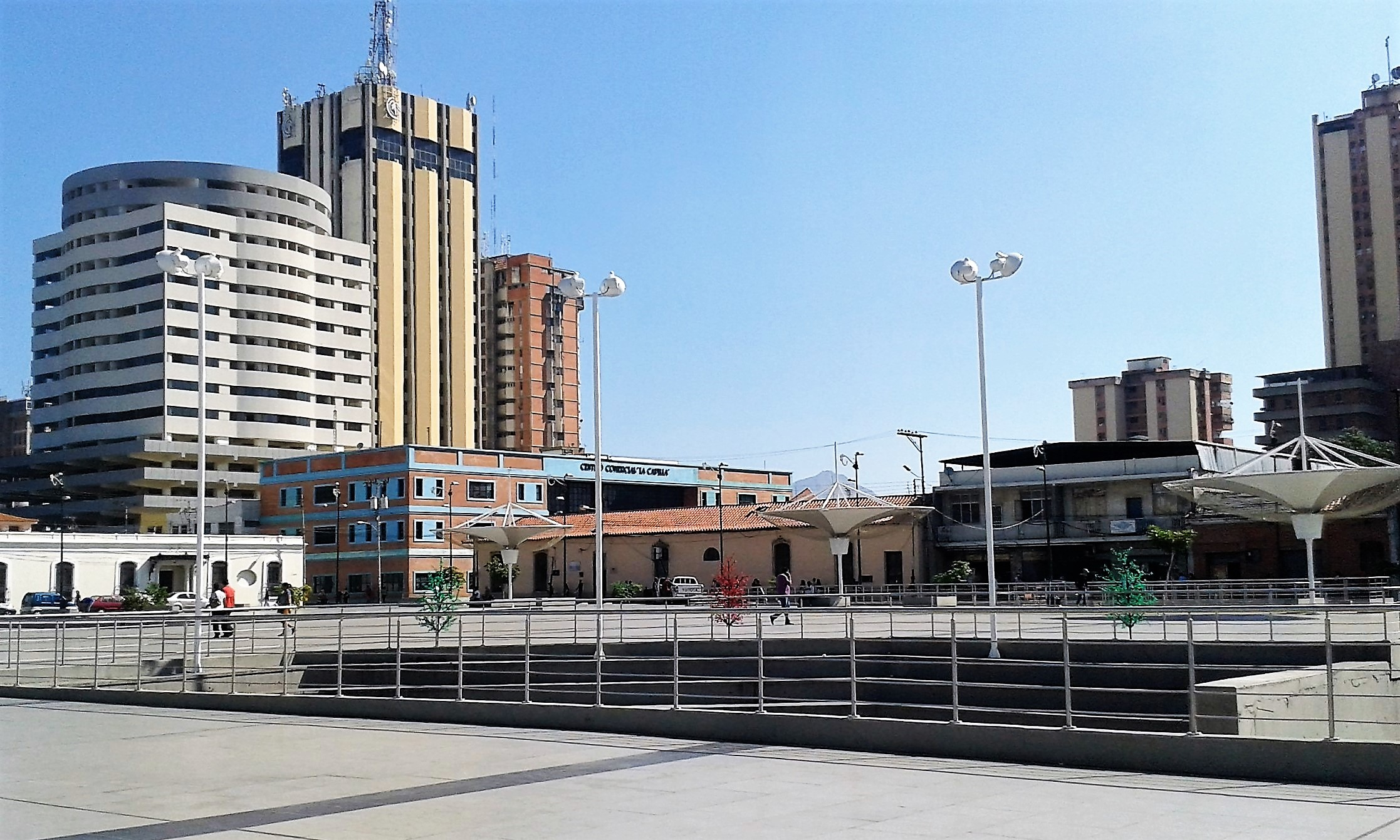 In the heart of the city, diagonal to the Cathedral of Maracay